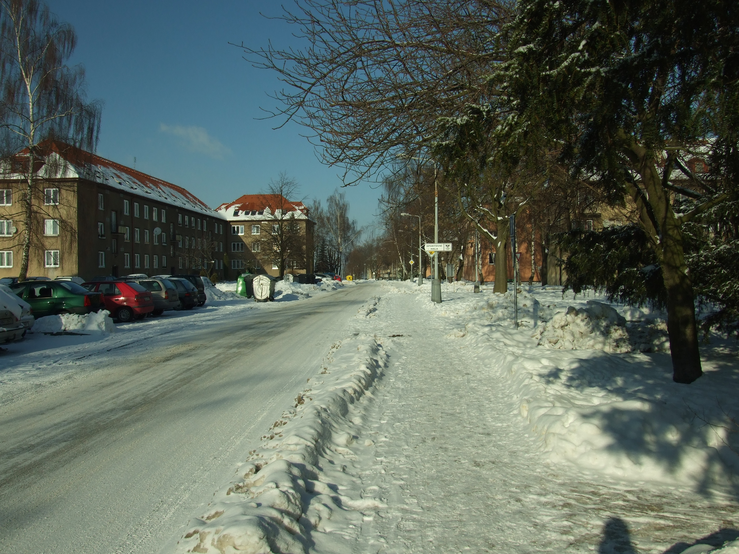 Apartment blocks in the U Stadionu street, thats the newer part of the town Stochov, Central Bohemian Region, CZhelp